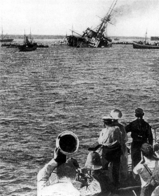 The last moments of British battleship HMS Majestic, torpedoed by the U-21 off Cape Helles, Dardanelles, on 27 May 1915. Caption reads: The last moments of H.M.S. Majestic, showing the huge battleship three minutes after she had been torpedoed by a German submarine, about to turn completely over and sink. The Majestic was torpedoed off the Gallipoli Peninsula early in the morning of May 27th. In this impressive photograph the doomed vessel is seen, after receiving her death-blow, with her torpedo-nets out, and her crew scrambling down her hull. Small craft are rushing to the rescue, and near her are larger vessels, powerless to help. On the British ship from which this photograph was taken, men are watching the tragic spectacle.